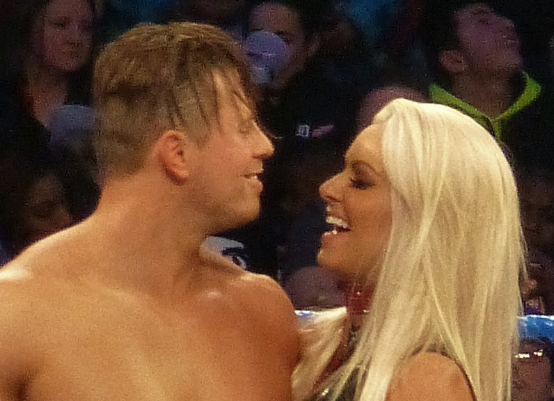 The Miz and Maryse